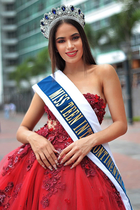 Lisandra Torres of Mexico wins 2018 Miss Teen Intercontinental pageant held in Guayaquil, Ecuador.